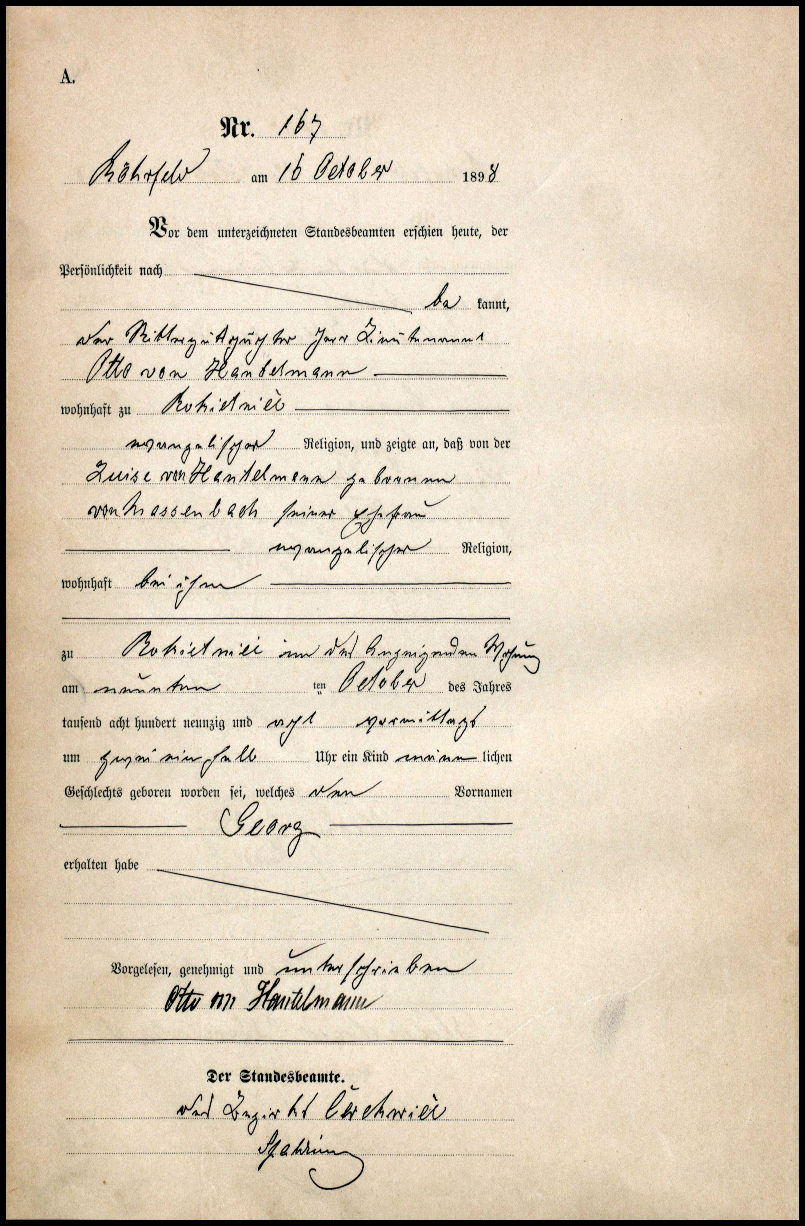 Akt urodzenia Georga von Hantelmanna Author AnonymousUnknown authorTitle Akt urodzenia Georga von HantelmannaDate 1924date QS:P571,+1924-00-00T00:00:00Z/9Medium papermedium QS:P186,Q11472Collection State Archive in Poznań Native nameArchiwum Państwowe w PoznaniuLocationPoznańCoordinates52° 24′ 34.92″ N, 16° 55′ 54.12″ E Established1869Web page control : Q9159228 VIAF: 157096479 ISNI: 0000 0001 2193 0168 LCCN: n82029128 BNF: 12746498k NKC: olak2007396461 WorldCat institution QS:P195,Q9159228Accession number 53/1836/0/74Place of creation Urząd Stanu Cywilnego Cerekwica, pow. poznańskiSource/Photographer This file was provided to Wikimedia Commons by the The State Archive in Poznań as part of a cooperation project with Wikimedia Polska.